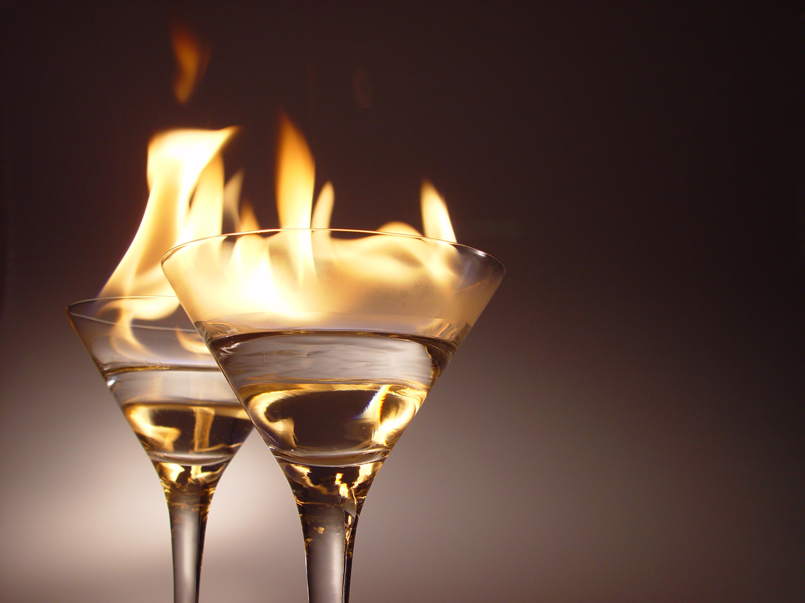 "Flaming" cocktails contain a small amount of flammable high-proof alcohol which is ignited (and subsequently extinguished) prior to consumption.